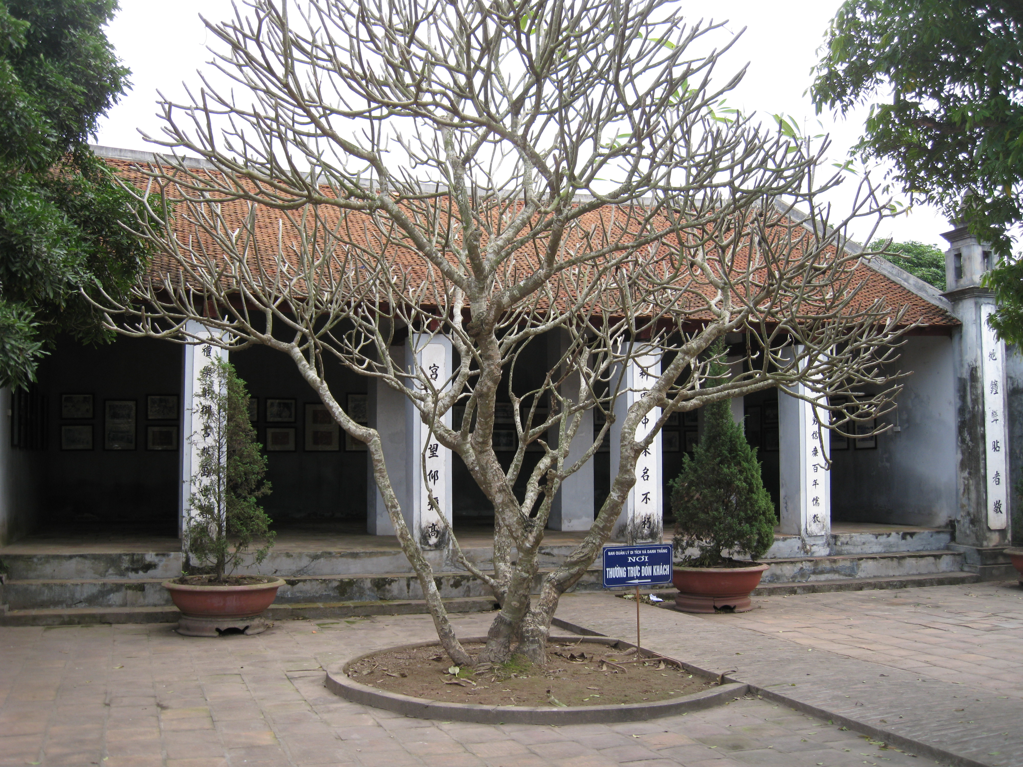 Hữu vu (右廡) house inside the Temple of Literature, Hung Yen Province.